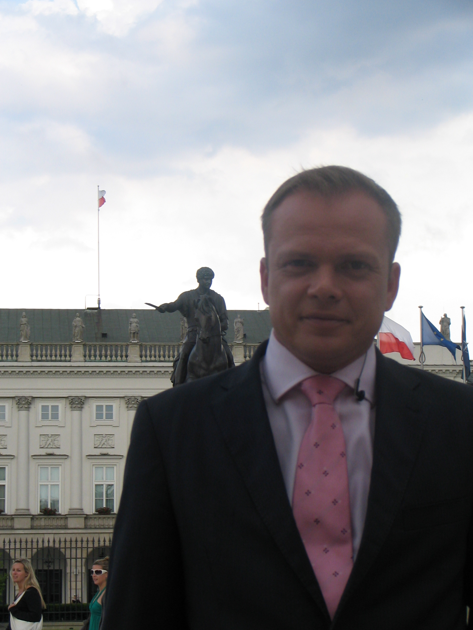 Mariusz Sidorkiewicz - polish journalist